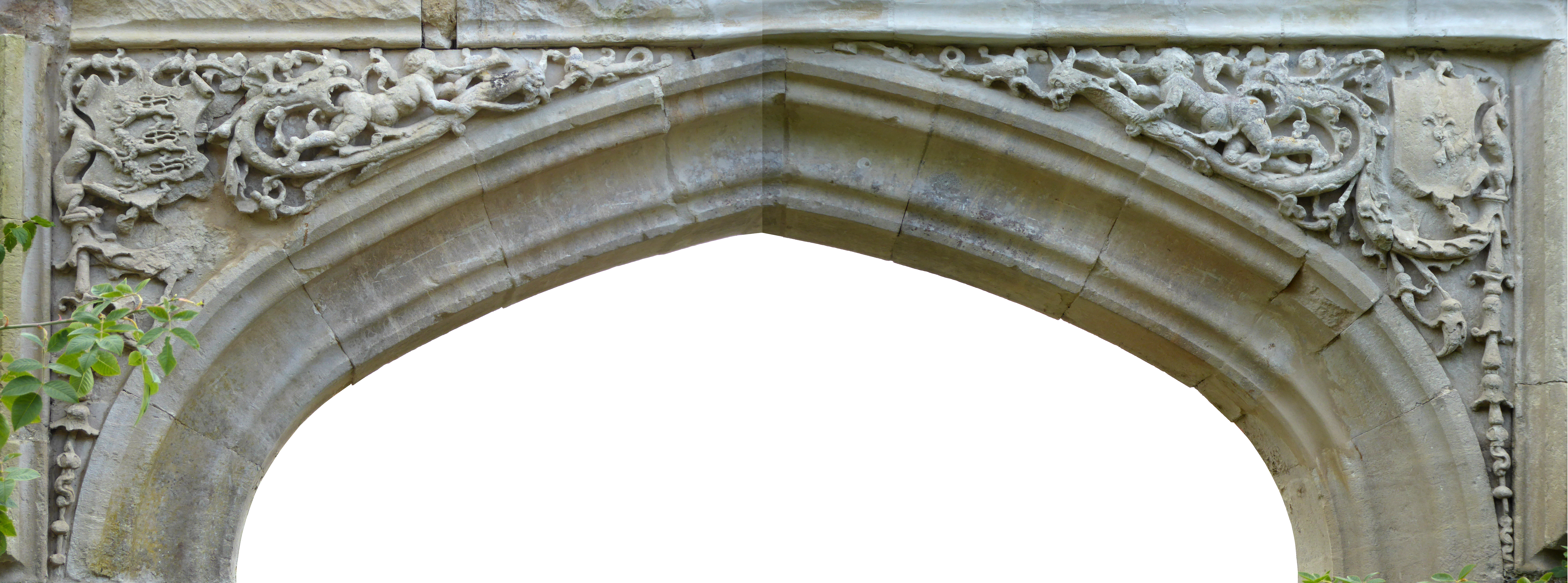 Spandrels of inner doorway to gatehouse of Mohun's Ottery House in the parish of Luppit in Devon. Spandrels show Renaissance decorative elements. The arms on left are Carew (Or, three lions passant in pale sable), on right Mohun (Gules, a maunch ermine the hand argent holding a fleur-de-lis or). These relief scuptures are in a much better preserved state than similar ones on the south-facing outer door of the gateway, more exposed to sun and weathering.